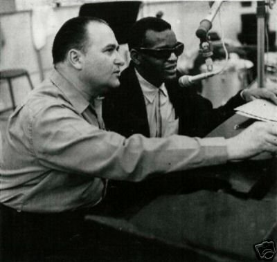 Sid Feller working with Ray Charles